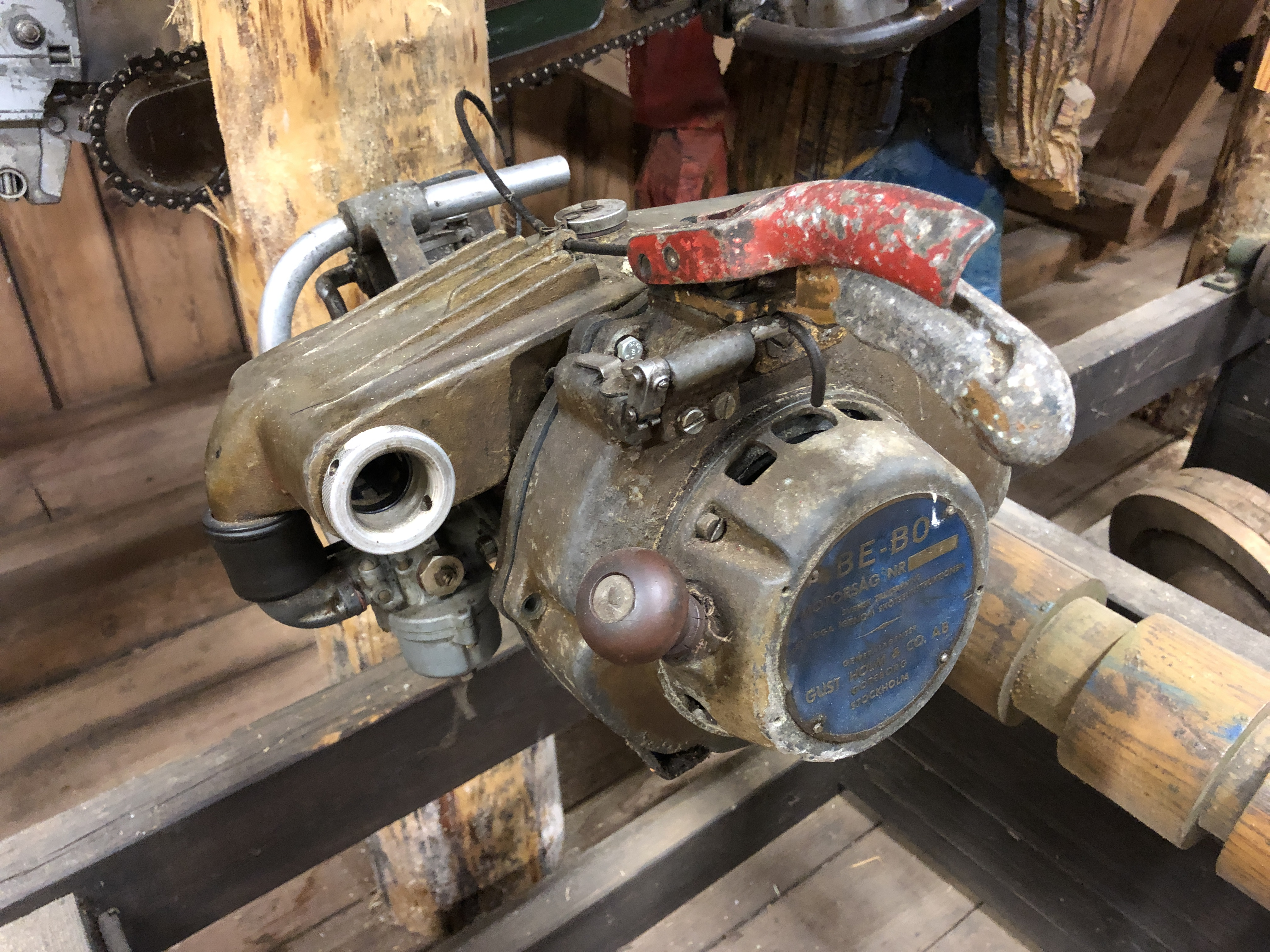 The chainsaw Be-Bo was the first Swedish-built chainsaw and was presenterad in 1949. The Be-Bo in the picture is shown at Derome Trä- och Nostalgimuseum.